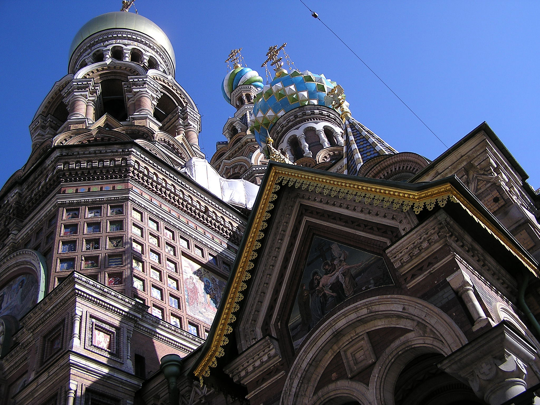 A close-up view of the Cathedral of the Resurrection of Christ in Saint Petersburg, Russia. On the left, the belfry of the church. The onion shaped domes are guilded or covered with enamel.